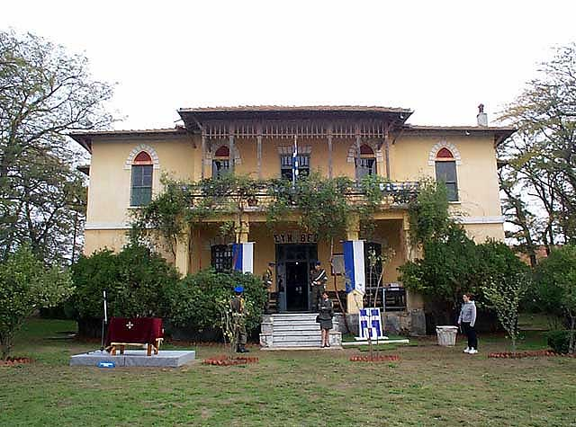 External view, image from the Balkan Wars Museum, Yefira, Central Macedonia, Greece